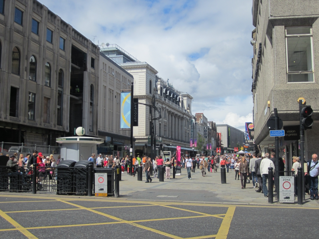 Northumberland Street, Newcastle upon Tyne